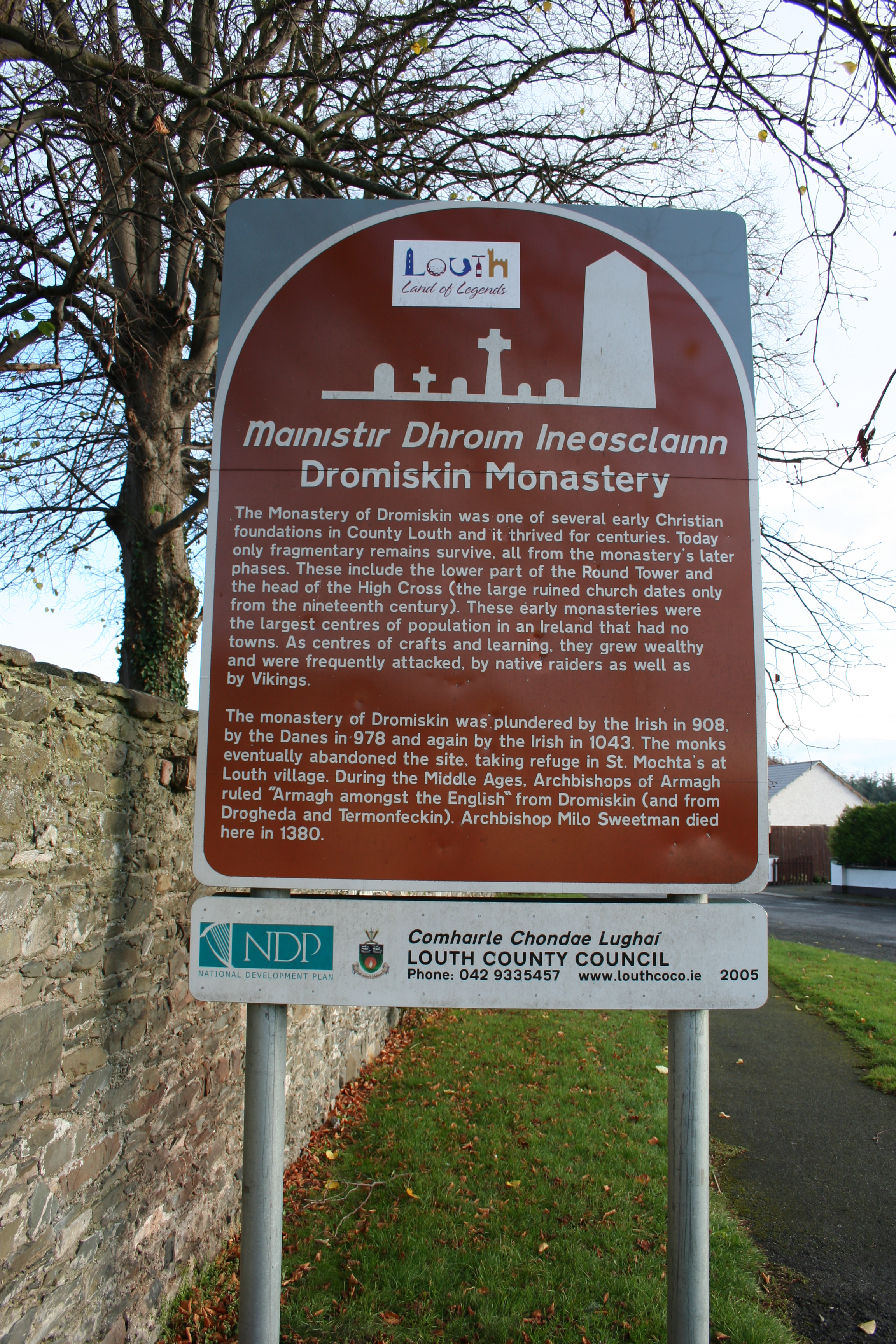 Information sign, Dromiskin Monastery, County Louth, Republic of Ireland